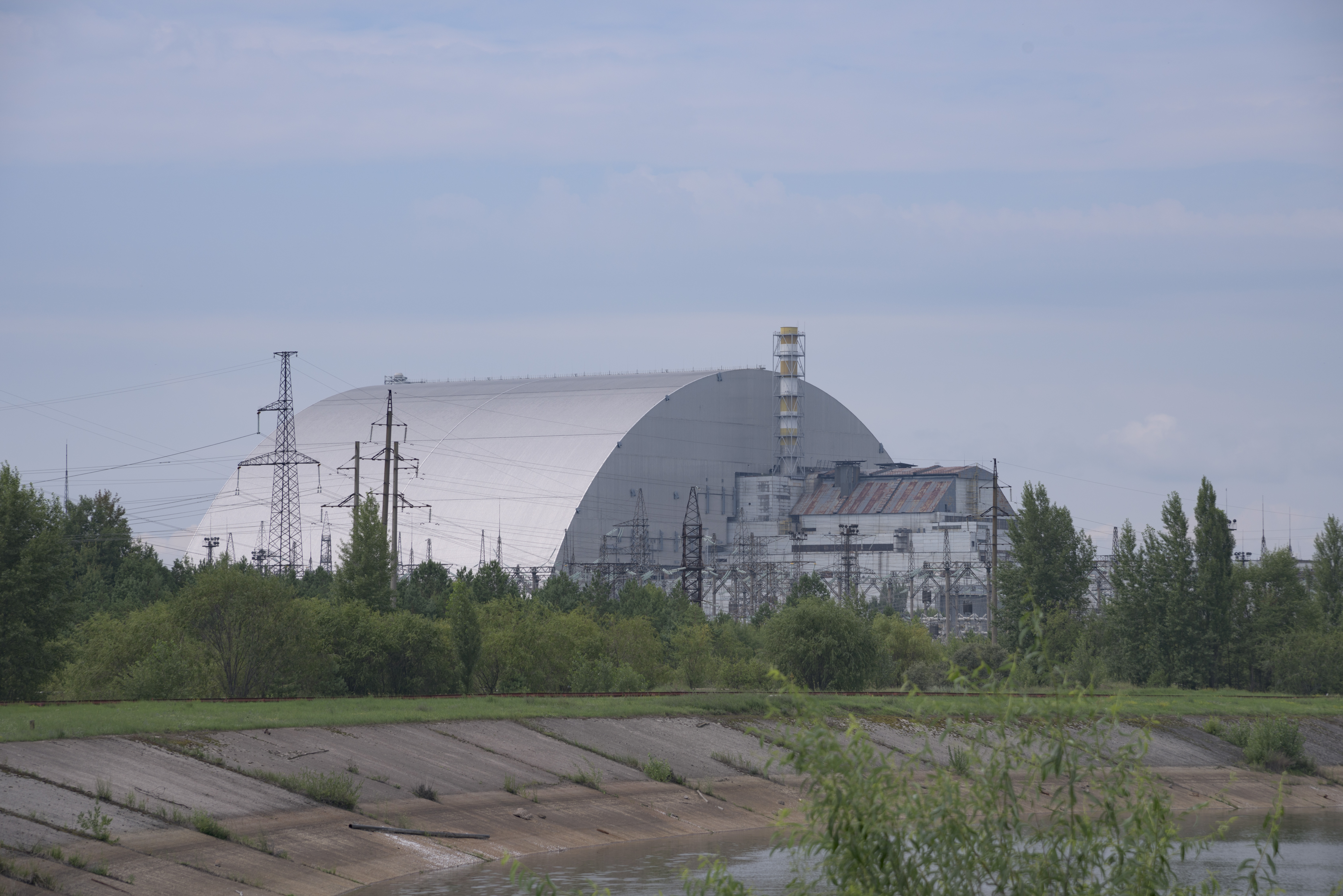 The so called New Safe Confinement colloquially known as the second sarcophagus in 2018.